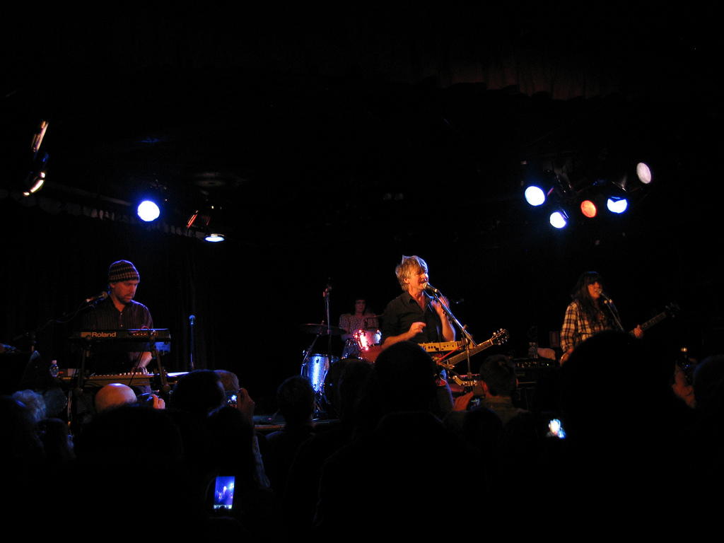 Pajama Club (featuring Neil Finn) live at the Corner Hotel Richmond